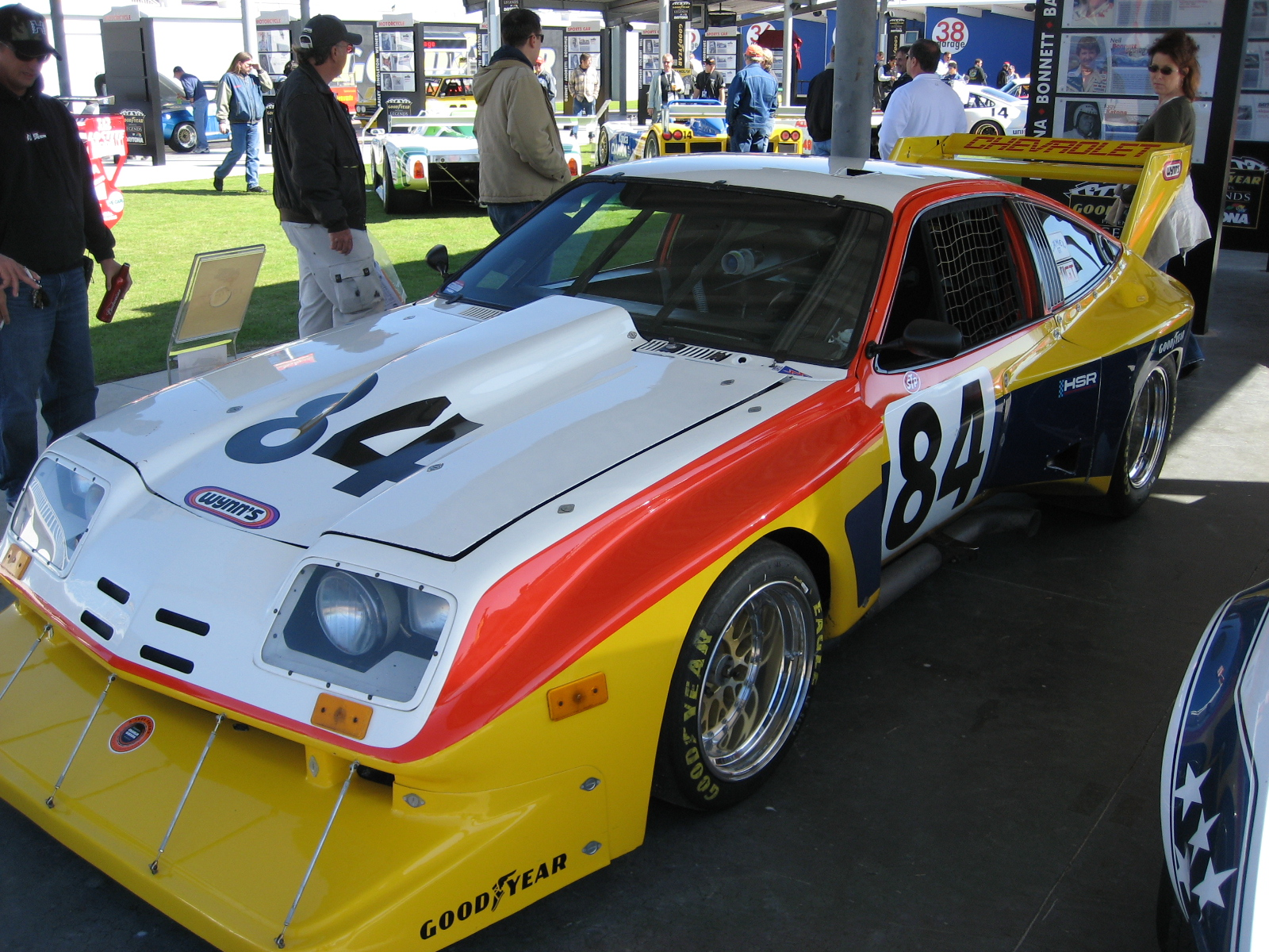 Photograph I took at the 2007 24 Hours of Daytona at a historics display. 1970s DeKon Monza from IMSA GT.